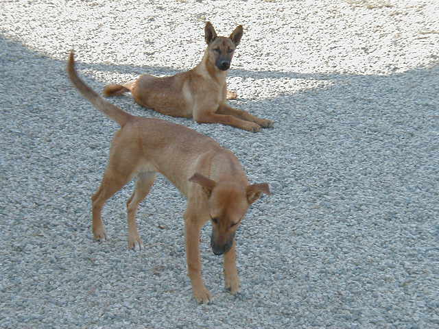 Carolina Dogs/American Dingos, Riverside Rescue in Riverside, CA, USA